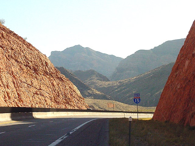 Photo of I-15 southbound at MP 17.8 - afternoon sun in a bright red rock cut